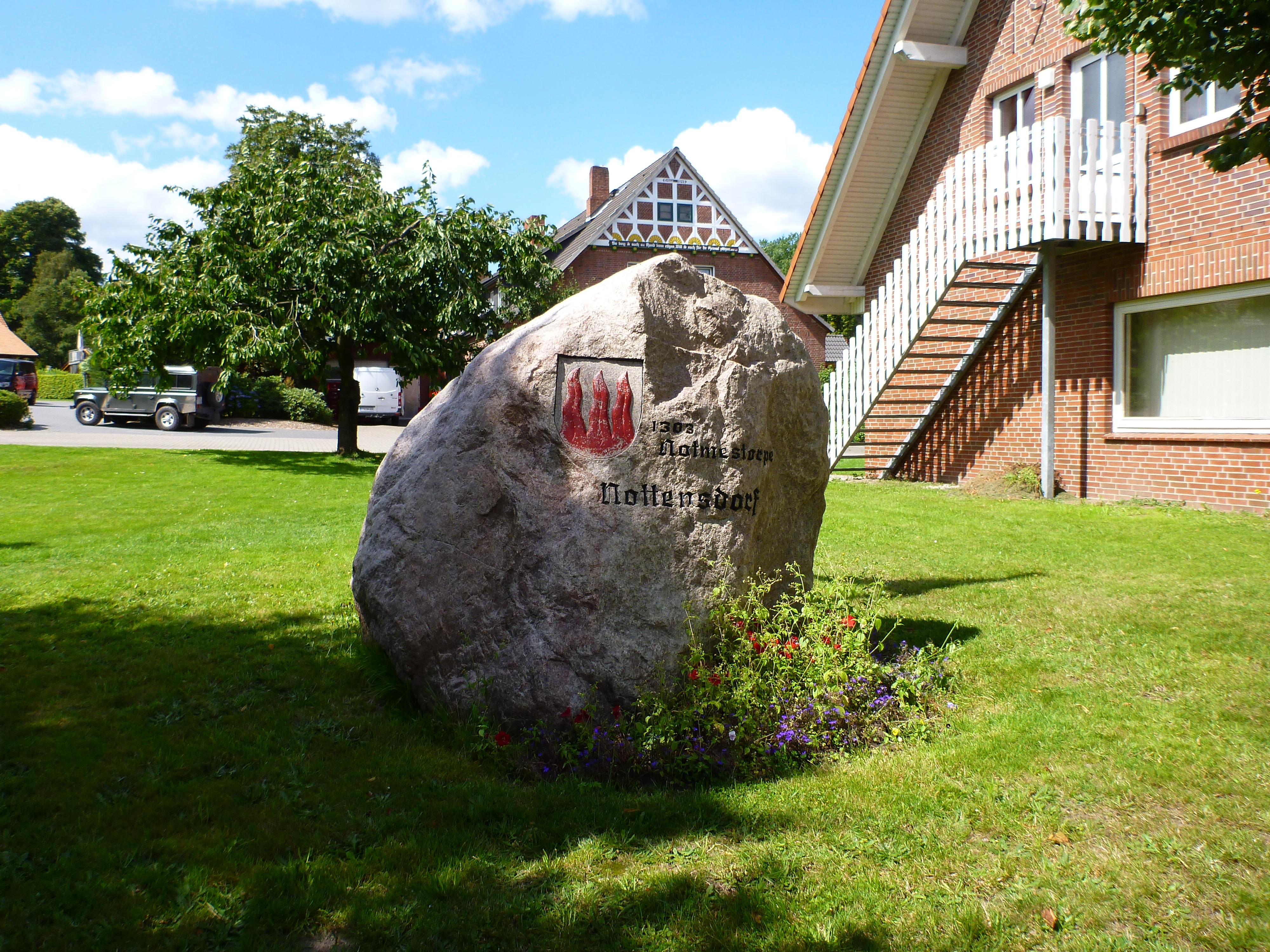 Nottensdorf memorial stone